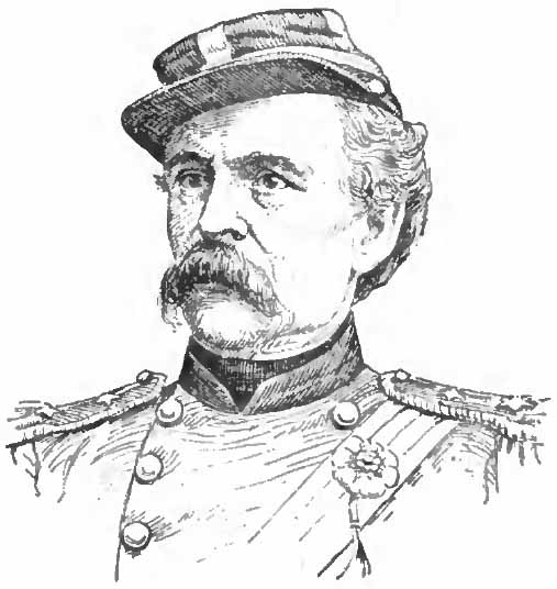 Portrait drawing of American Civil War General Louis (Ludwig) Blenker.